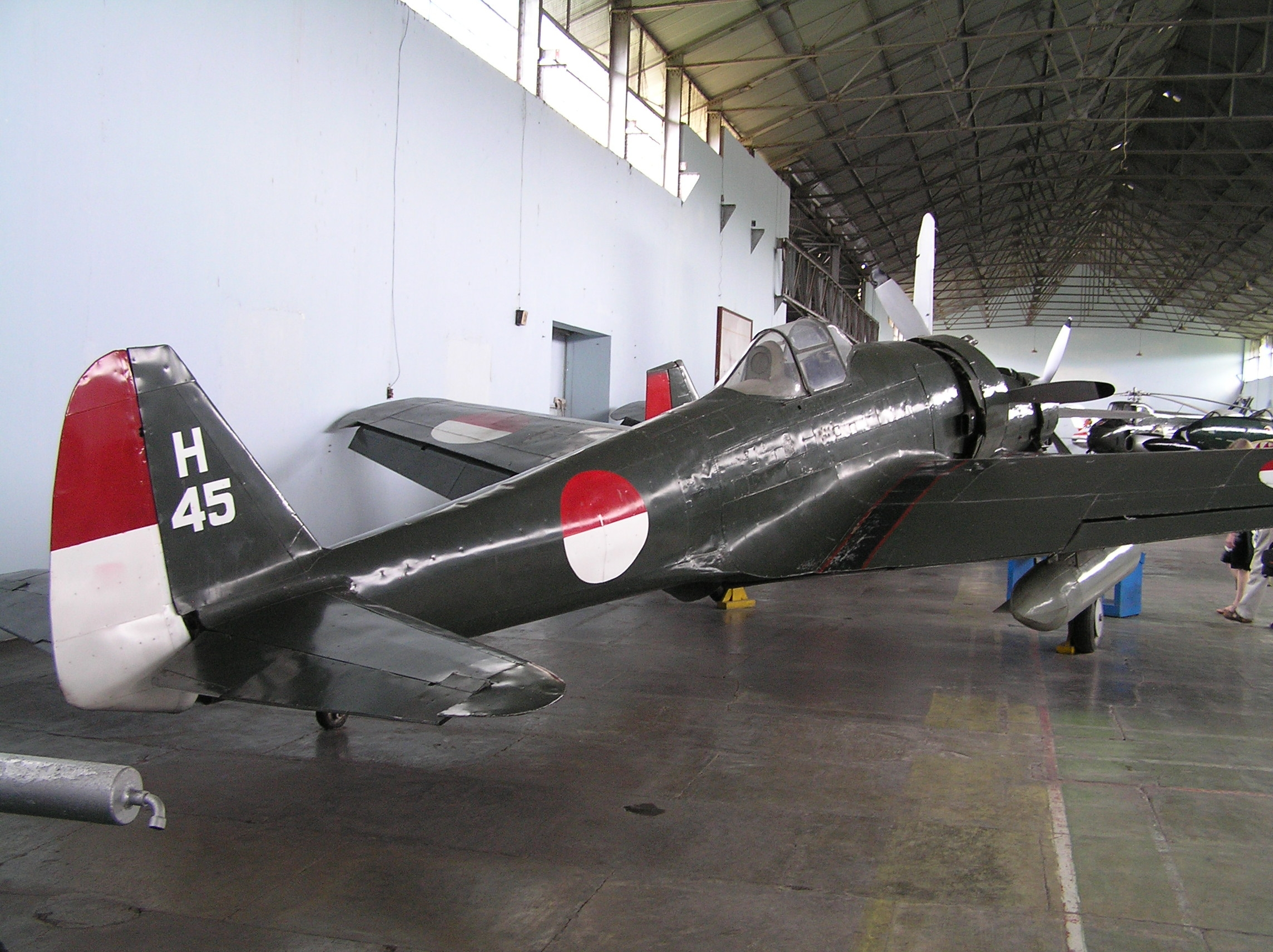 Nakajima Ki-43 Oscar flown by the Indonesian side in the War of Independence